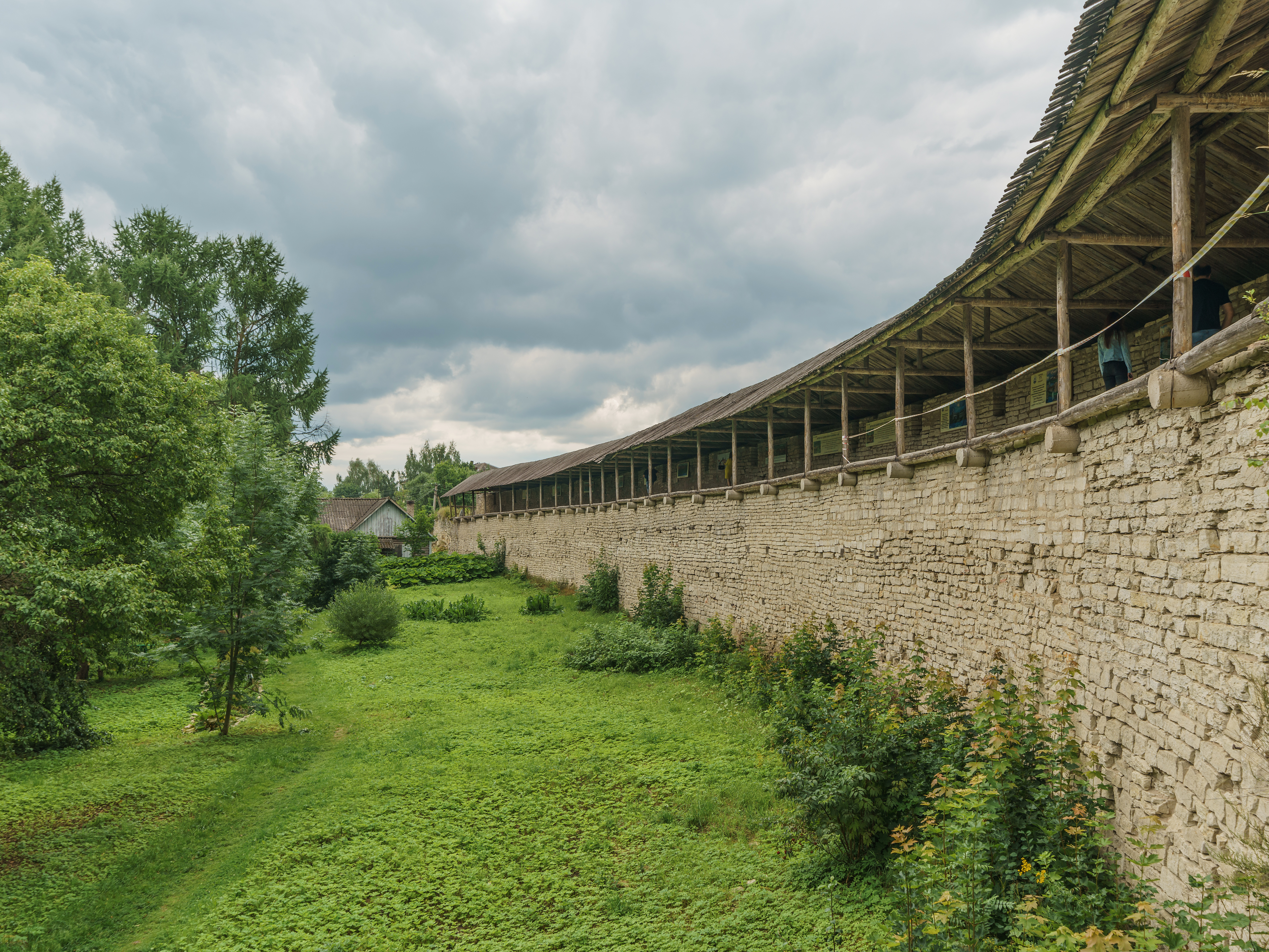 Defensive wall – Fortress in Porkhov, Pskov Oblast, Russia.